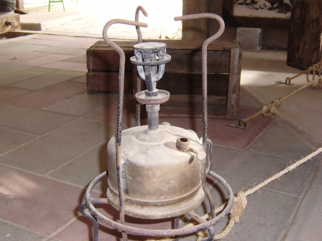 Primus stands at the entrance to thetent serves as the pioneers for cooking, washing, boiling, baking,heating, and more.